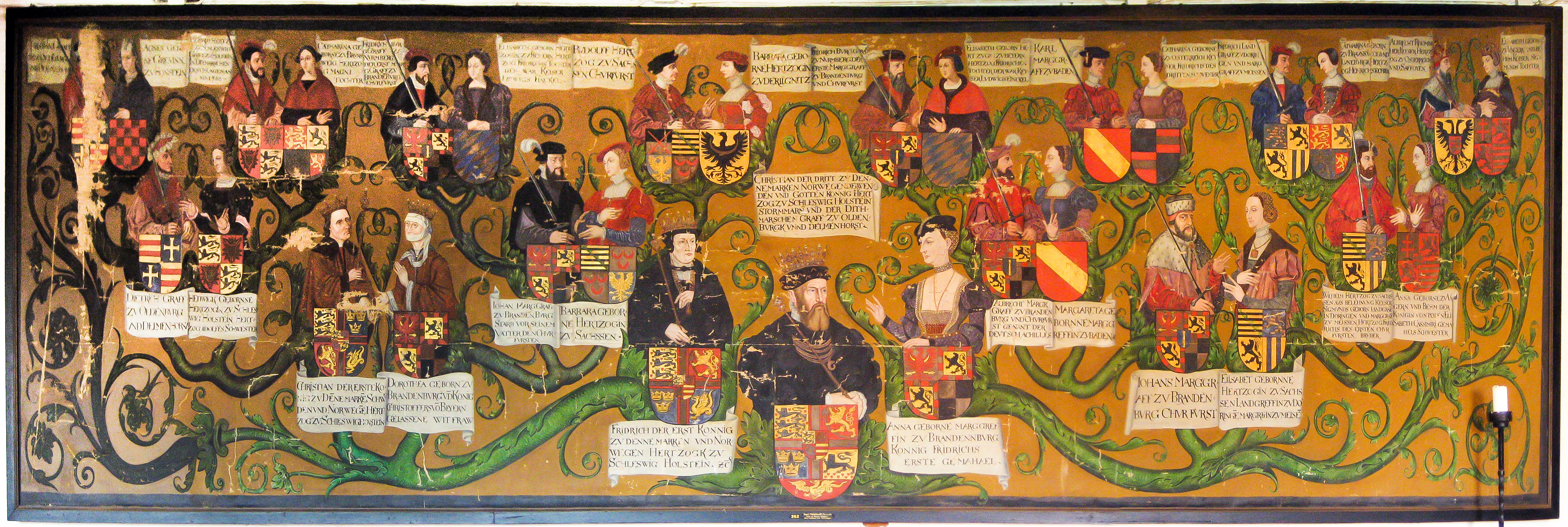 Ahnentafel of King Christian III of Denmark and Norway, Nyborg Castle, Funen, Denmark